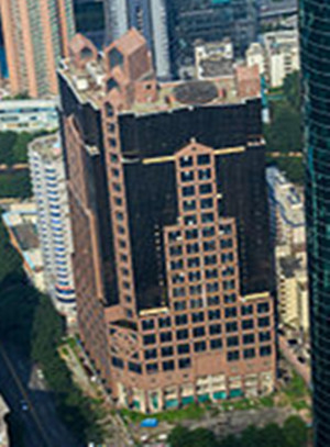 From File:Shun hing Square.jpg